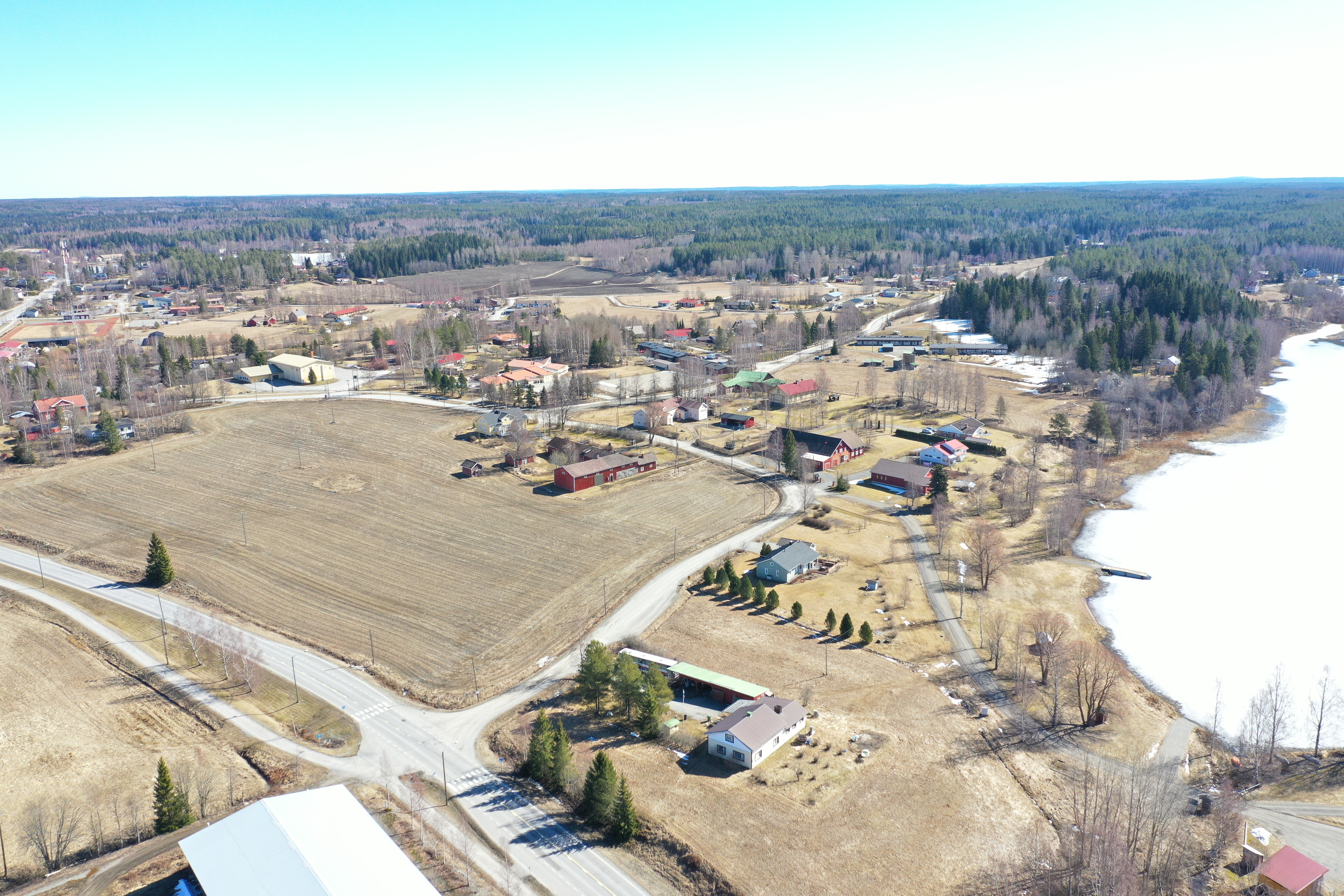 Kittilä village in Sastamala, Finland